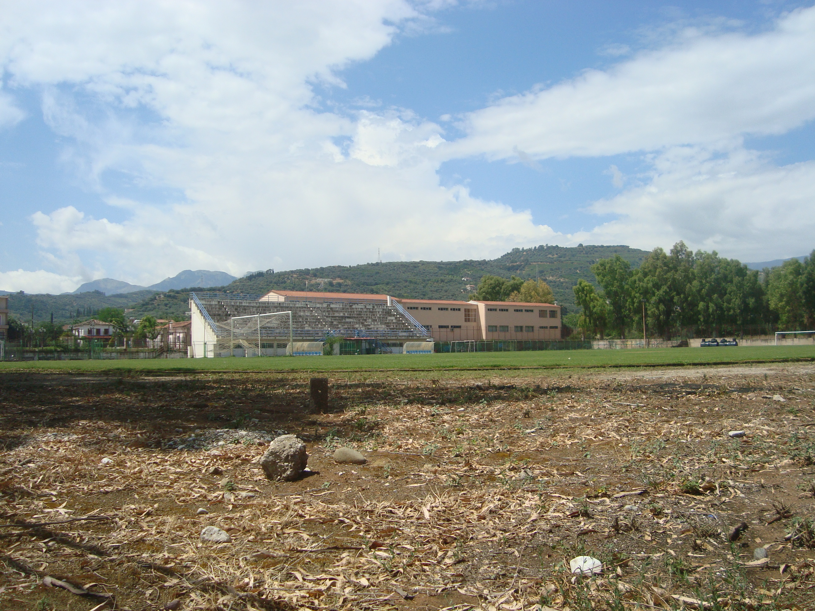 Stadioum Rododafni Achaias